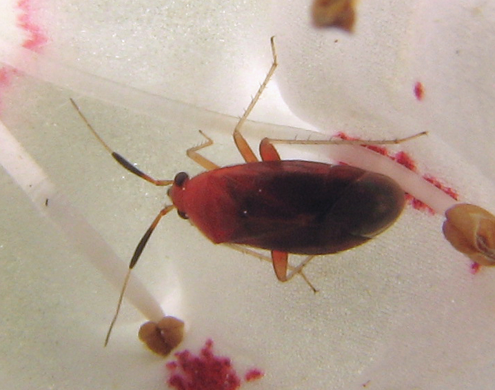 Mirid bug on mountain laurel, Rhinocapsus vanduzeei (azalea plant bug). Briar Bush Nature Center, Montgomery County, Pennsylvania, USA.